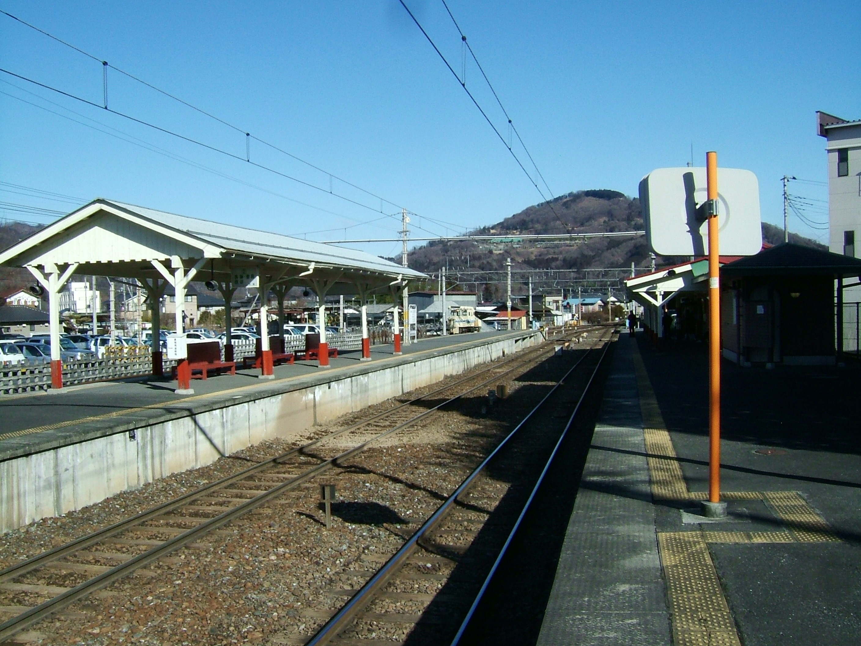 The platforms at Minano Station on the Chichibu Main Line